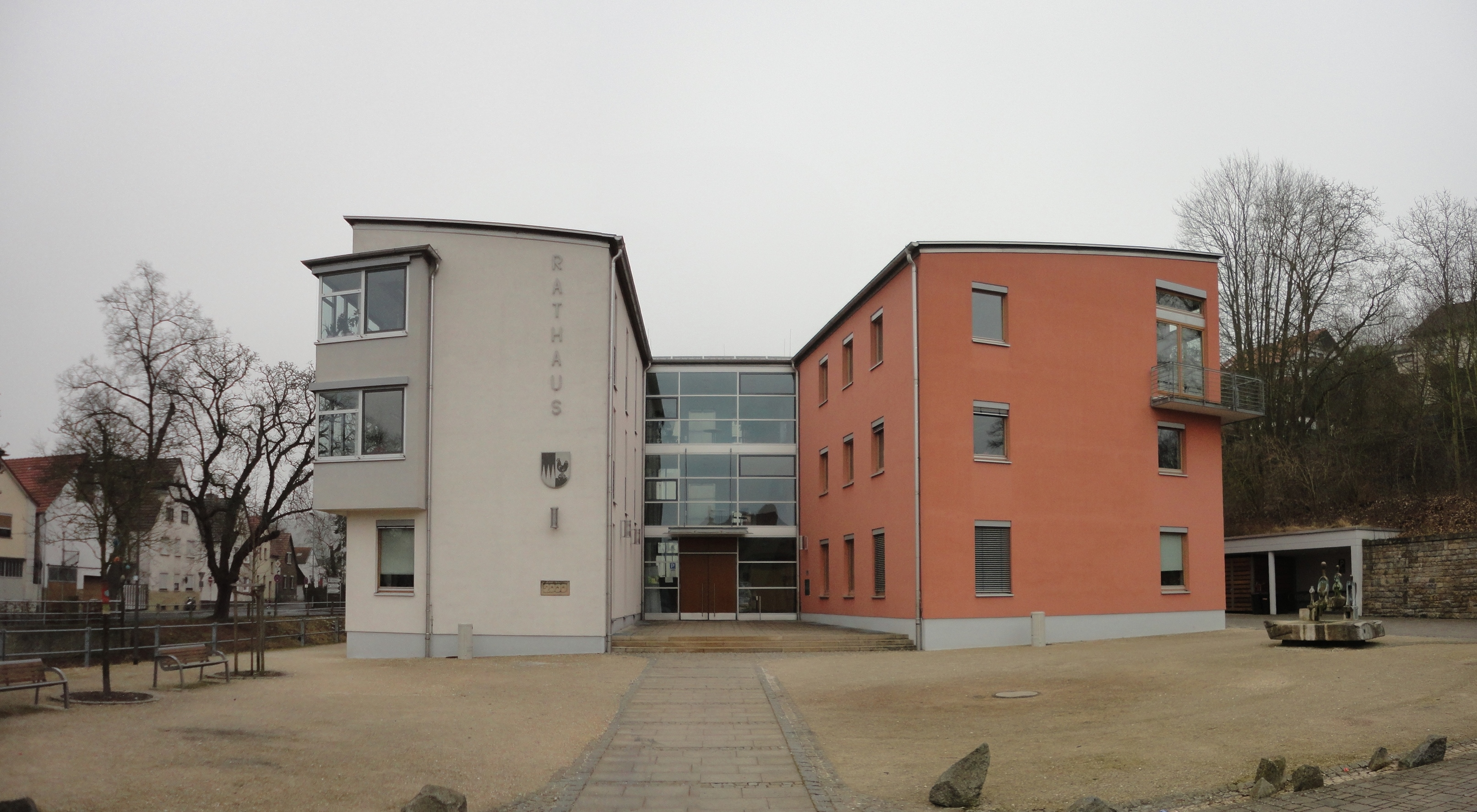 South-western view of the town hall in Schonungen , Schonungen municipality , Schweinfurt district district, Bavaria state, Germany.